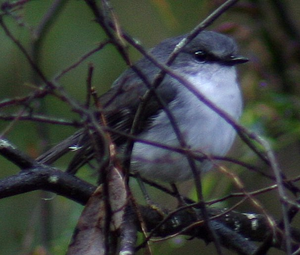 White-breasted Robin (Eopsaltria georgiana) in rain, along Margaret River walk